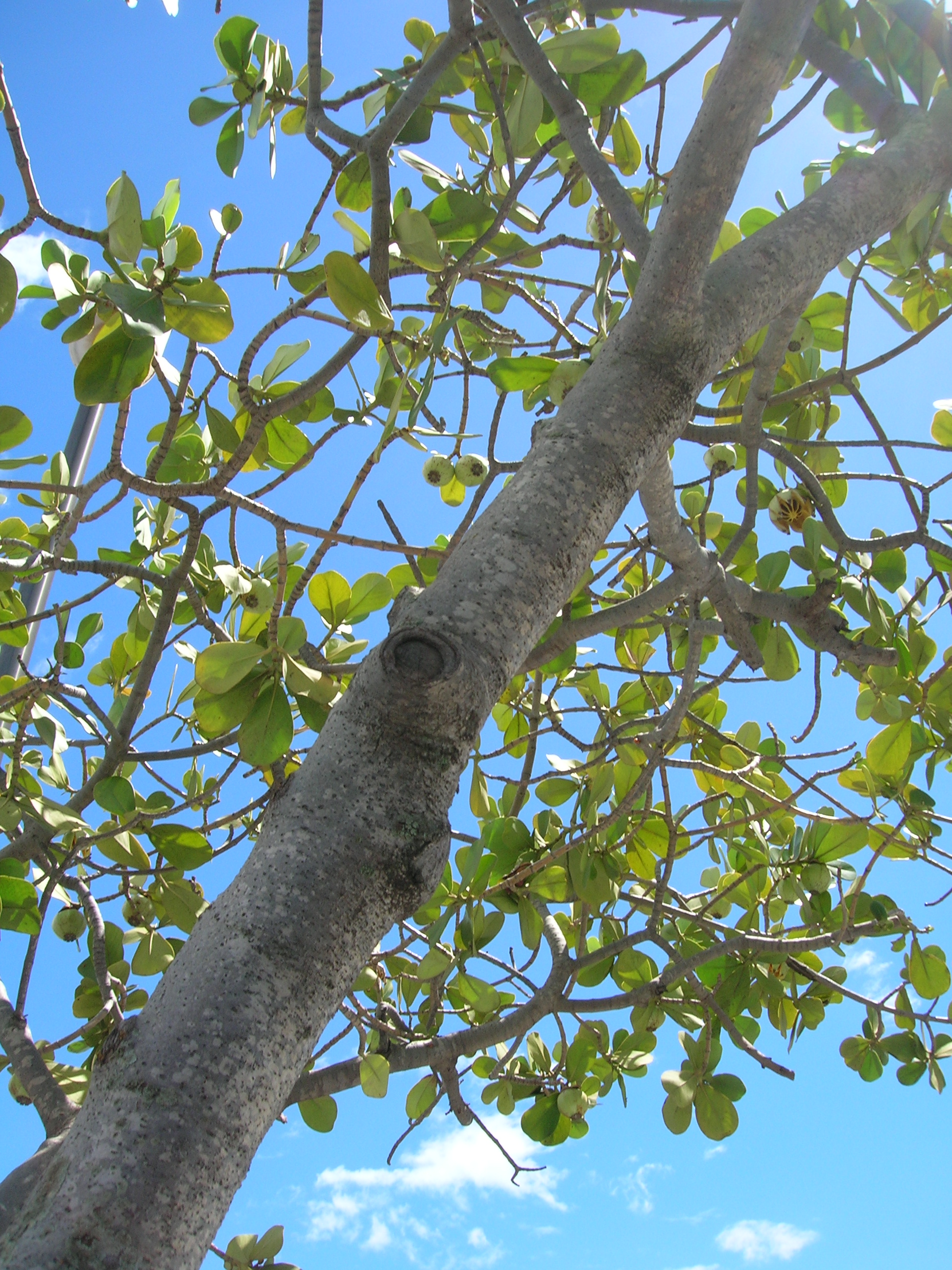 Clusia rosea (canopy and sky). Location: Maui, Kahului Airport